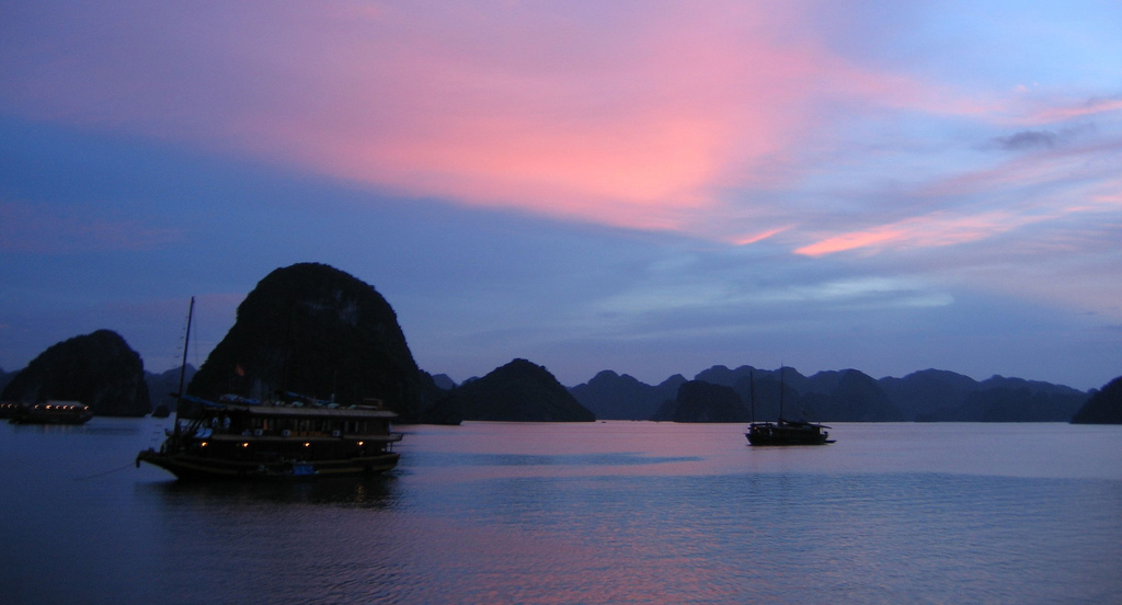 Sunset on Halong bay